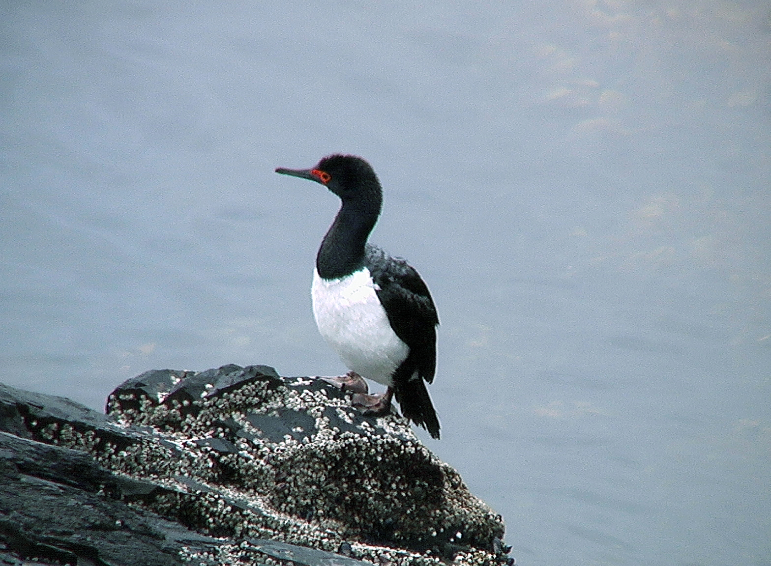 Rock Cormorant (Phallacrocorax magellanicus) near Ushuaia, Argentina. Photographed on 6 January 2004